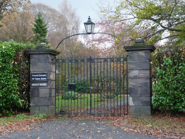 Chevet Lodge gates The big house was demolished decades ago, but the estate walls and gates remain.